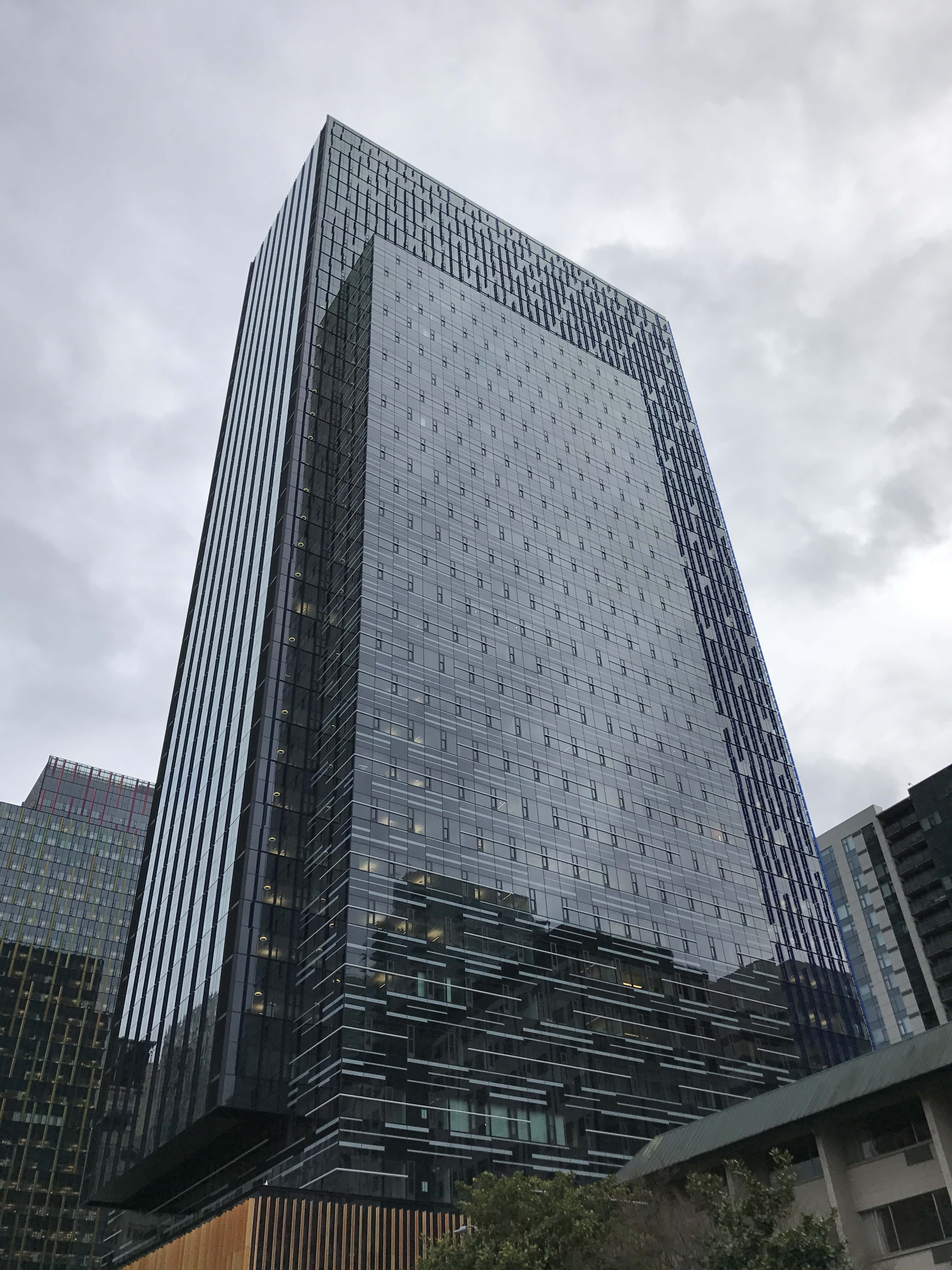 's "Day 1" tower in Seattle, WA in January 2017.